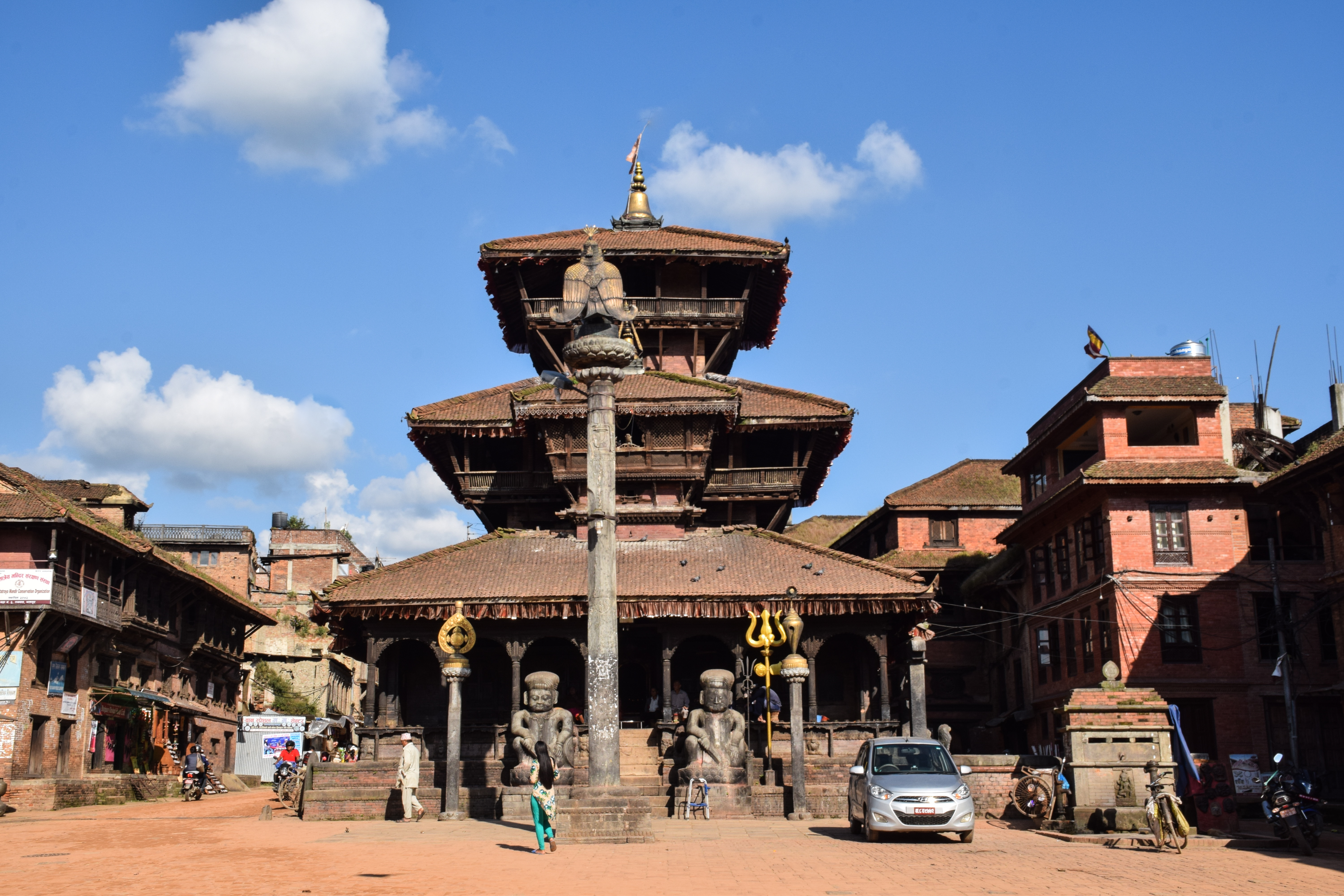 Dattatreya Temple